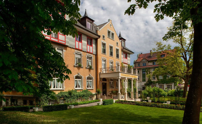 Institut auf dem Rosenberg Main Building